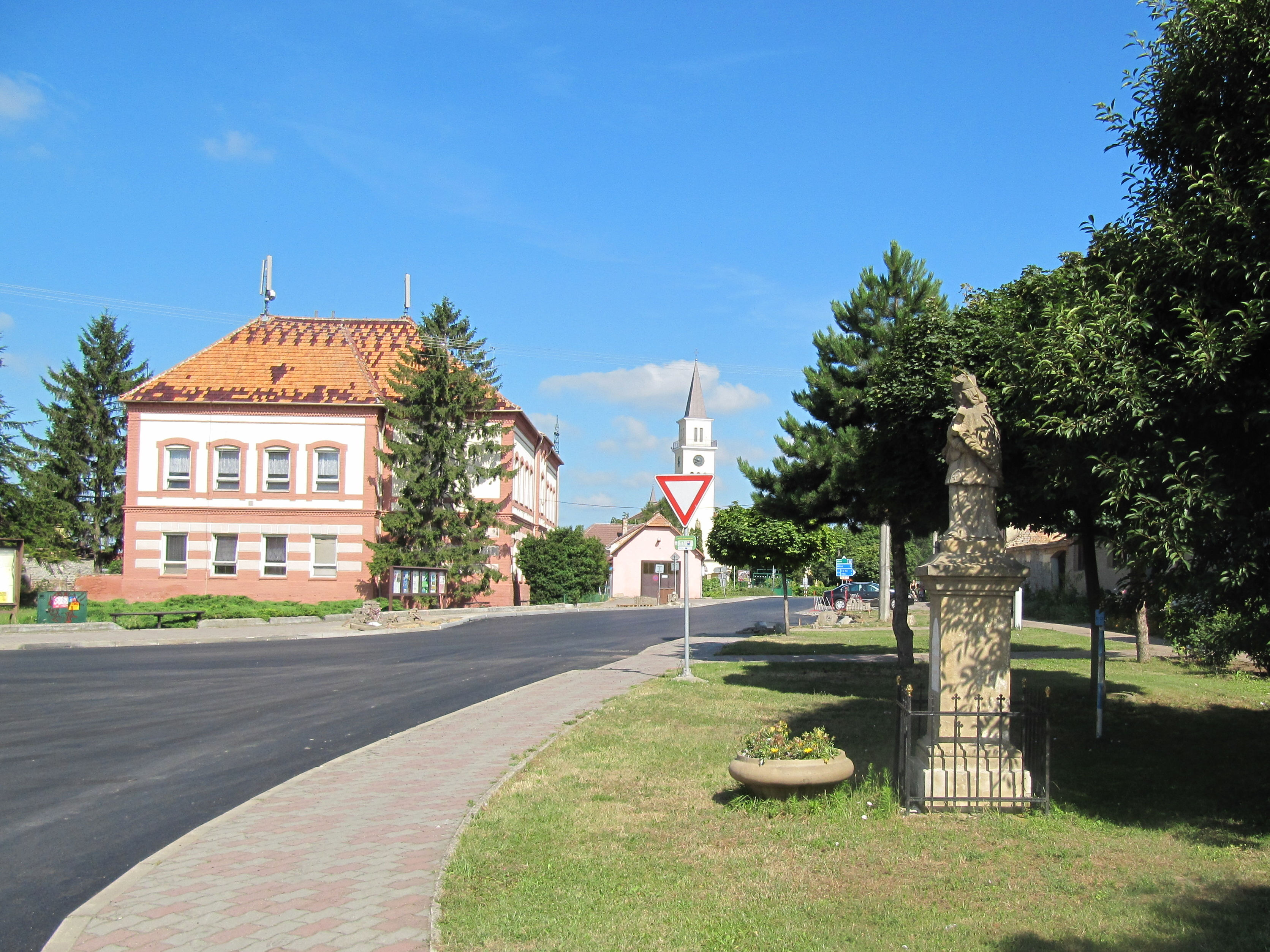 Tvrdonice in Břeclav District, Czech Republic. Center of the village with a church and statue of St. John of Nepomuk. This photograph was taken within the scope of the third year of the 'Czech Municipalities Photographs' grant.